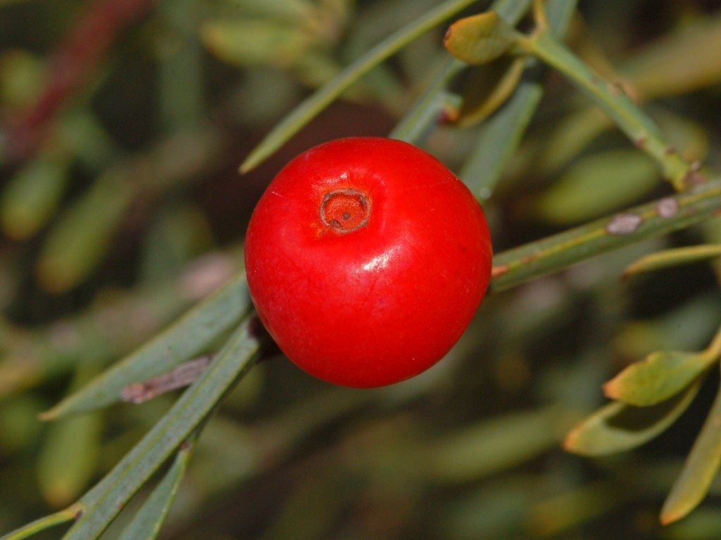 Osyris alba - S. Bernardo, Genova, Italy